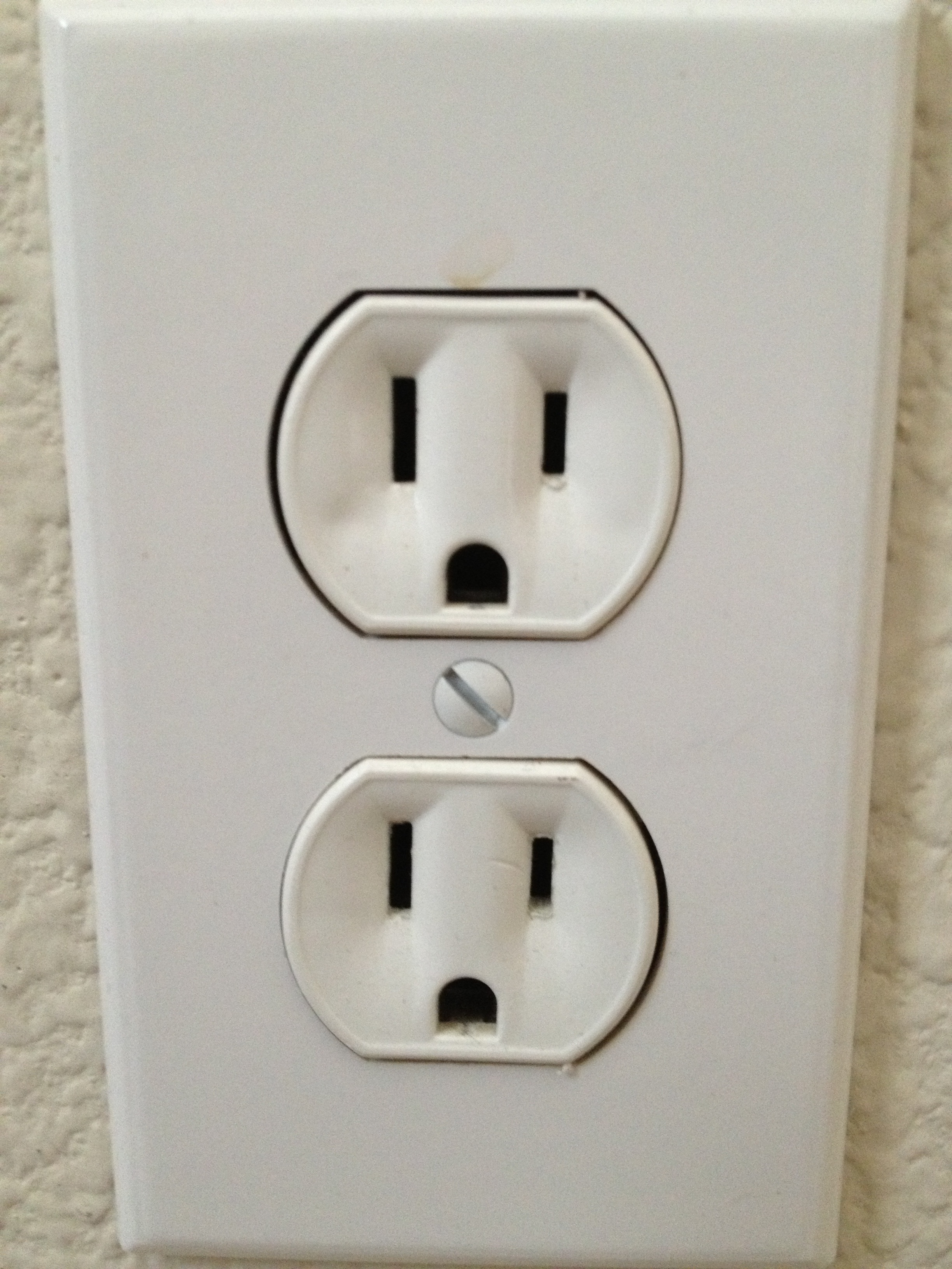 A standard American power socket